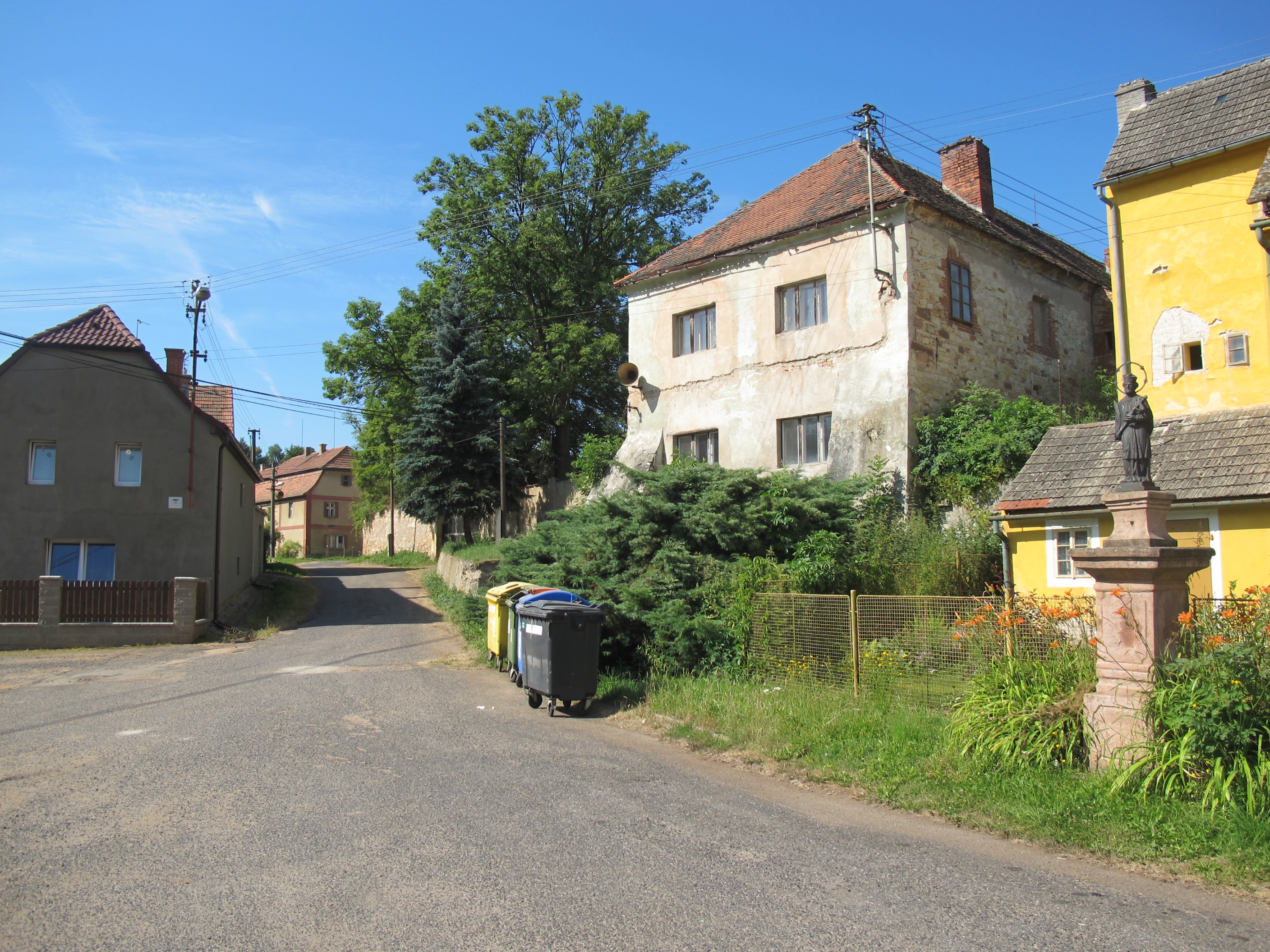 House No 1 in Nečemice